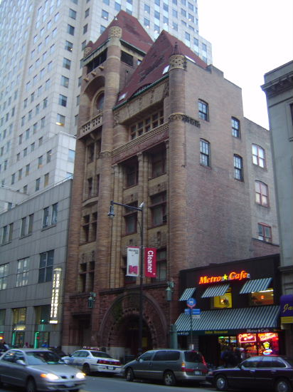 The original headquarters on Jay Street of the City of Brooklyn Fire Department, before it was consolidated with New York City Fire Department in 1898. NYCLPC designation 1966. Now residential.